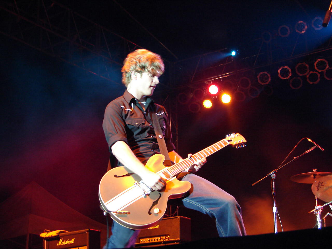 Matt Thiessen performing at Purple Door